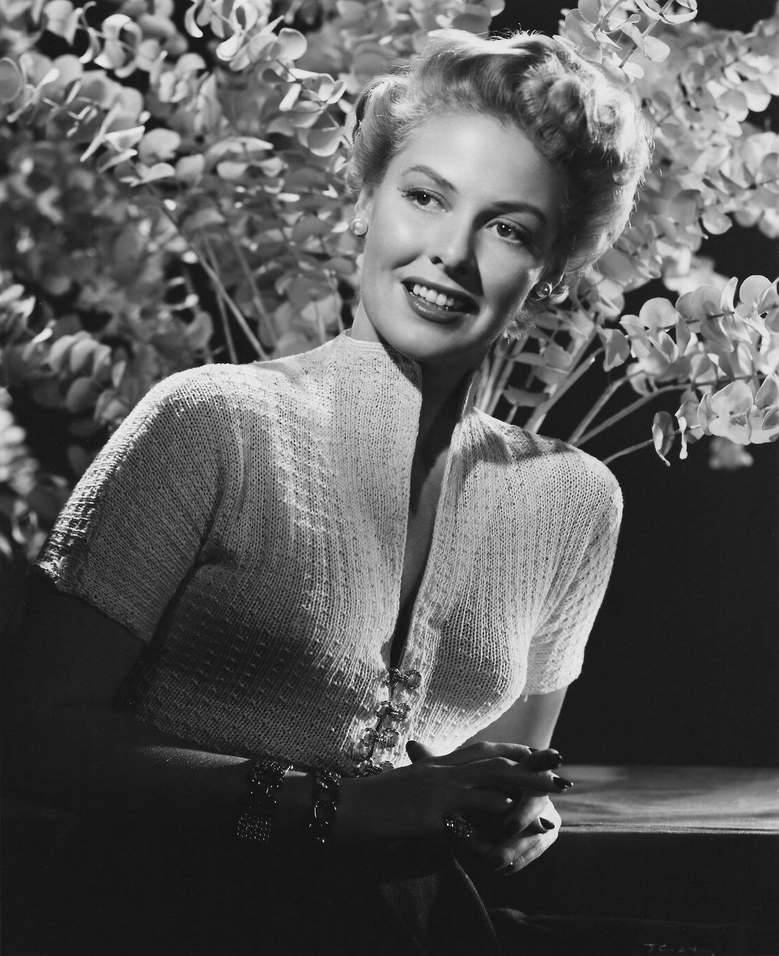 Publicity photo of Janis Carter.